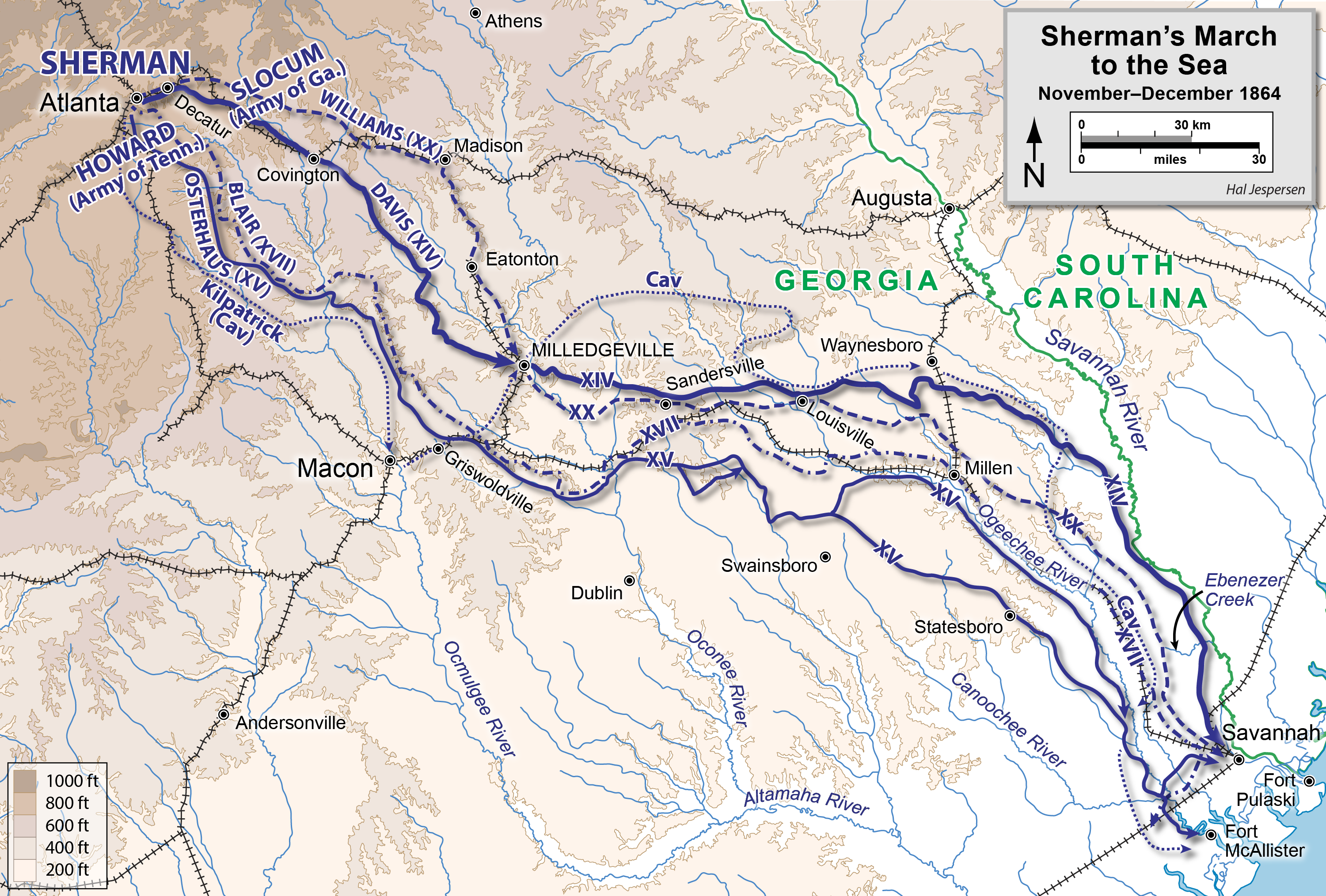 Map of the Savannah Campaign (Sherman's March to the Sea) of the American Civil War. Drawn by Hal Jespersen in Adobe Illustrator CS6. Graphic source file is available at